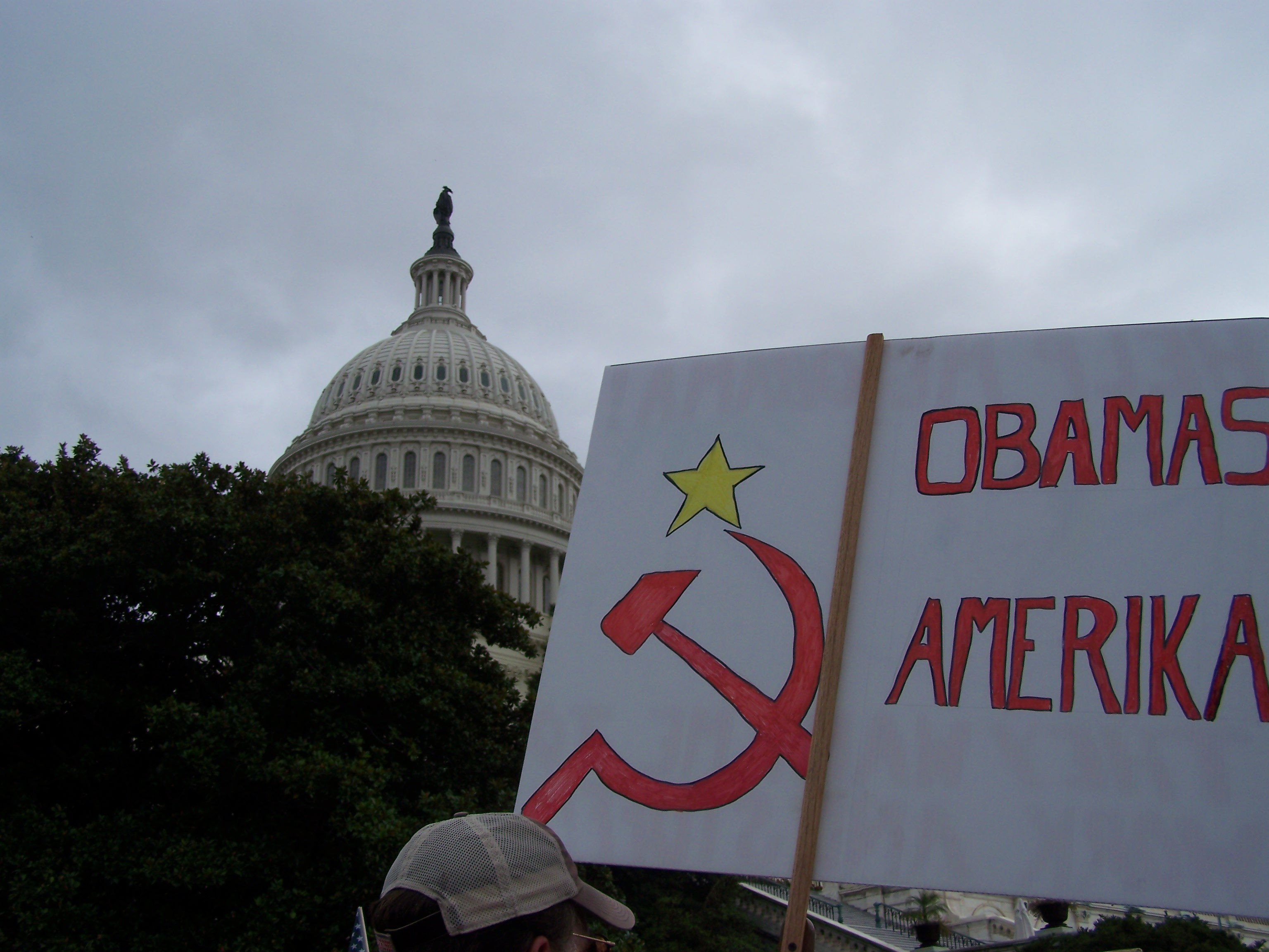 Signage protesting President Obama at the Taxpayer March on Washington.